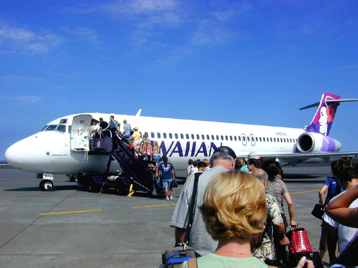 Loading Hawaiian Airlines Boeing 717-200 on July 2, 2004 at Kona International Airport; photograph contributed by Eric Guinther.